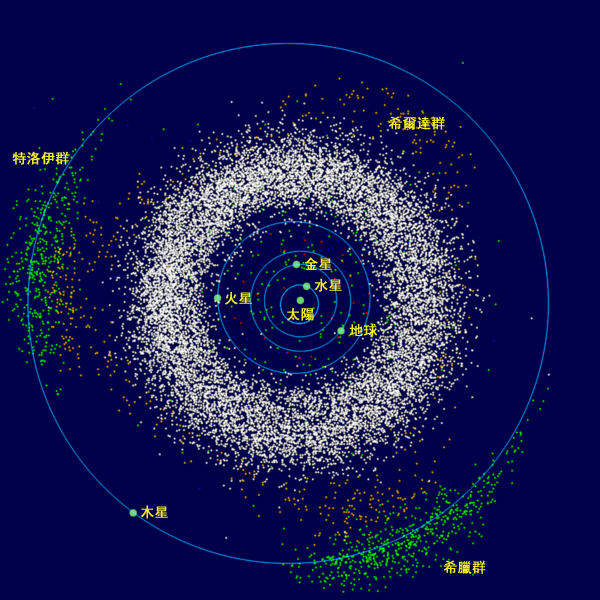 The inner Solar System, from the Sun to Jupiter. Also includes the Main Asteroid Belt (the white donut-shaped cloud), the Hildas (the orange "triangle" just inside the orbit of Jupiter) and the Jovian Trojans (green). The group that leads Jupiter are called the "Greeks" and the trailing group are called the "Trojans" (Murray and Dermott, Solar System Dynamics, pg. 107). This image is based on data found in the JPL DE-405 ephemeris, and the Minor Planet Center database of asteroids (etc) published 2006 Jul 6. The image is looking down on the ecliptic plane as would have been seen on 2006 August 14. It was rendered by custom software written for Wikipedia. The same image without labels is also available.